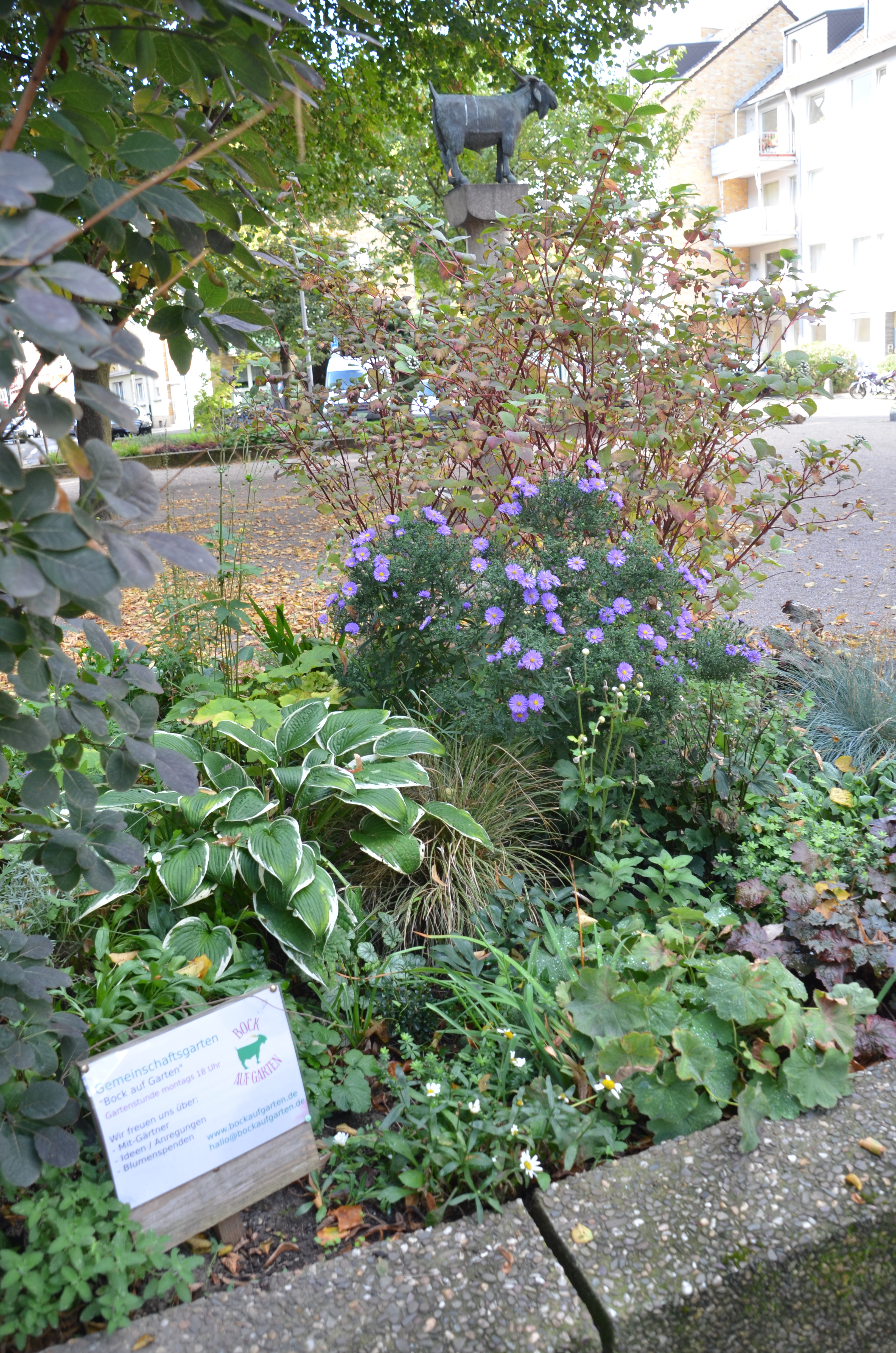 Cologne, fountain "Düxer-Bock"